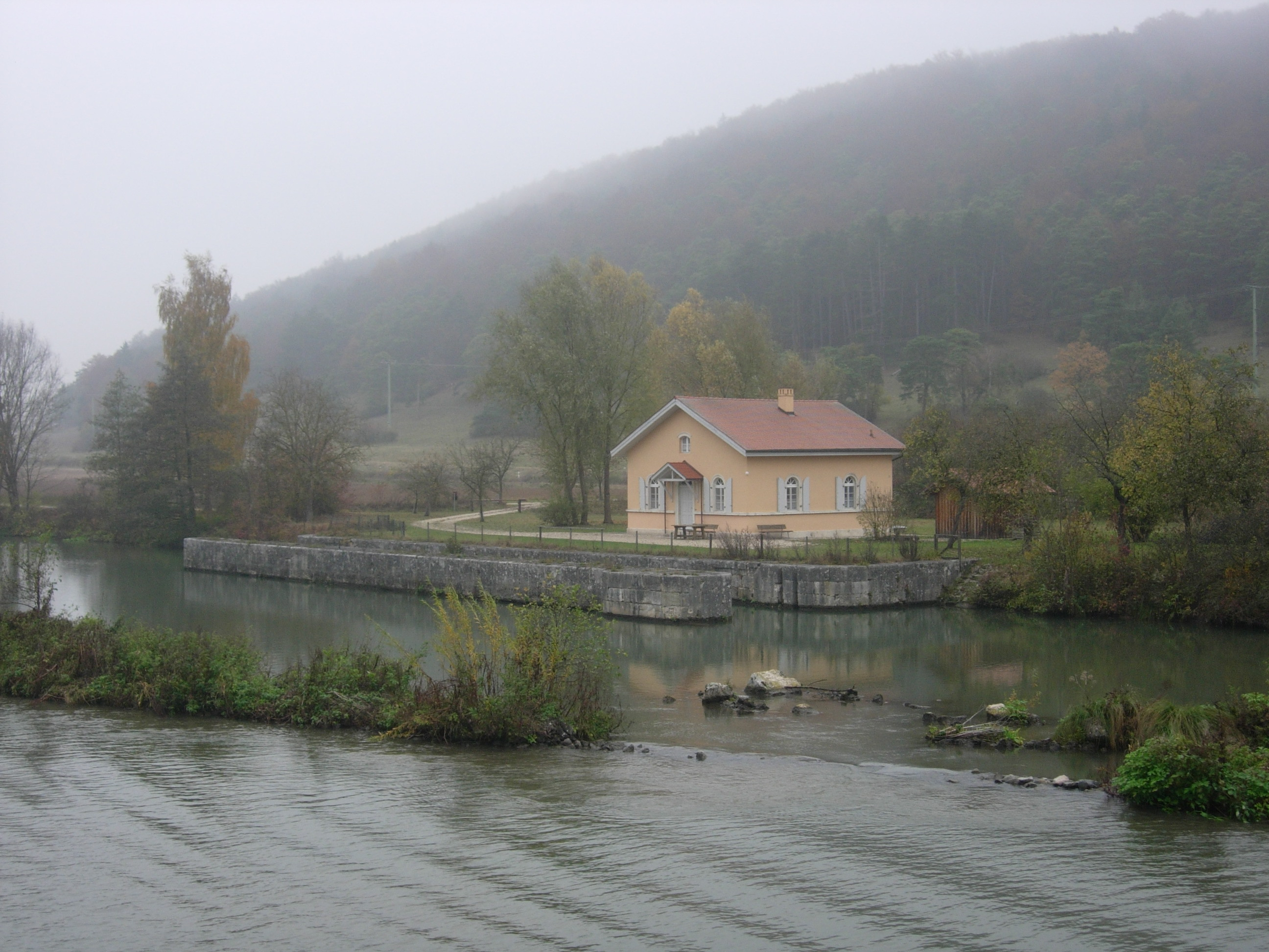 Old lock nr 10 Ludwigskanal